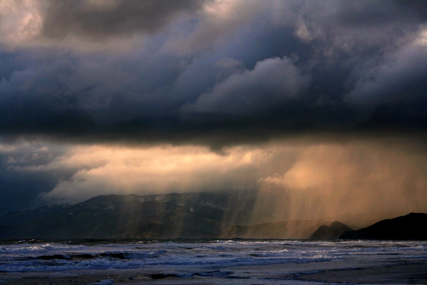 Distant Rain. The picture was taken at Ocean Beach, San Francisco